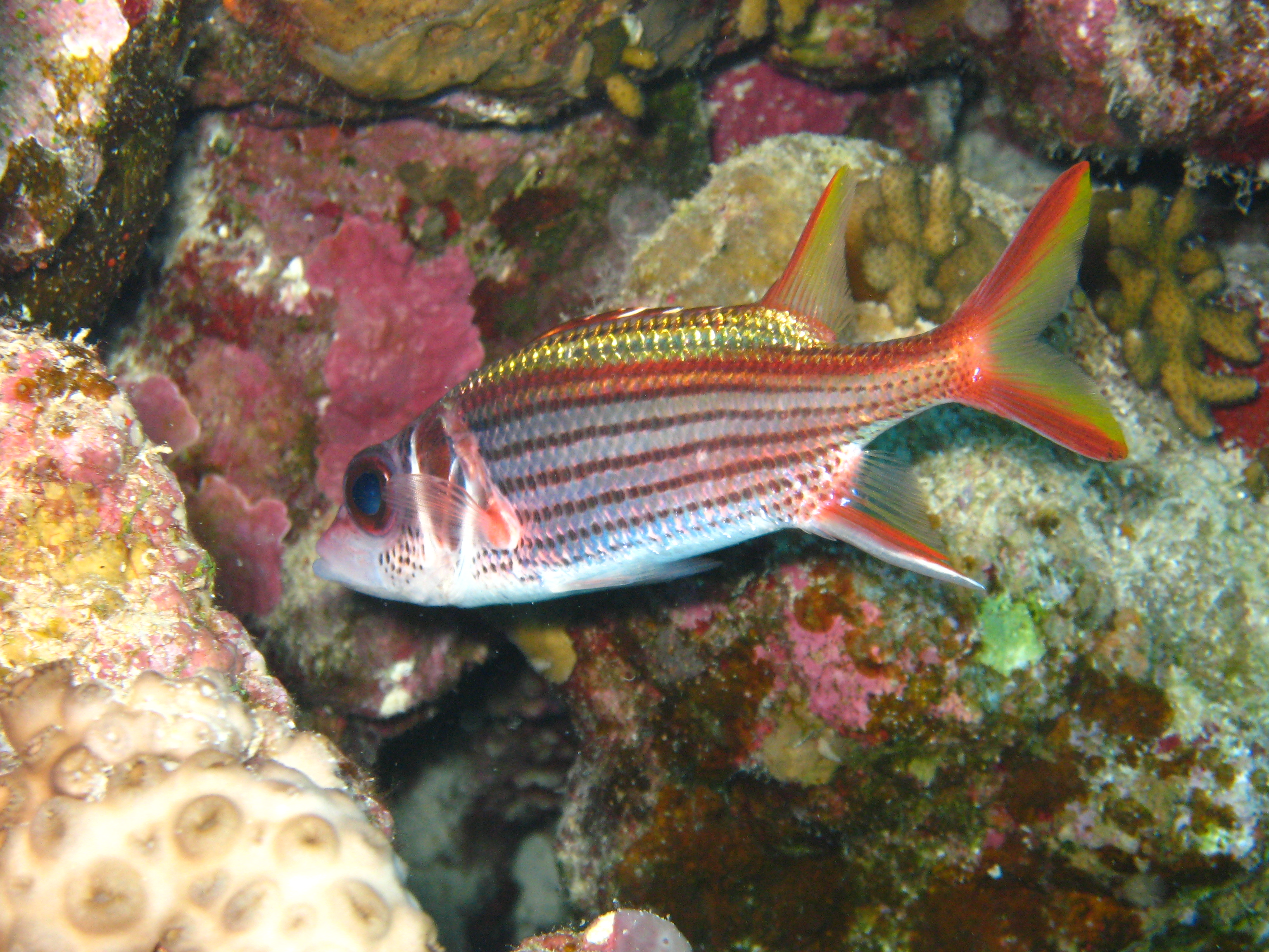 Mâle Sargocentron rubrum in Safaga